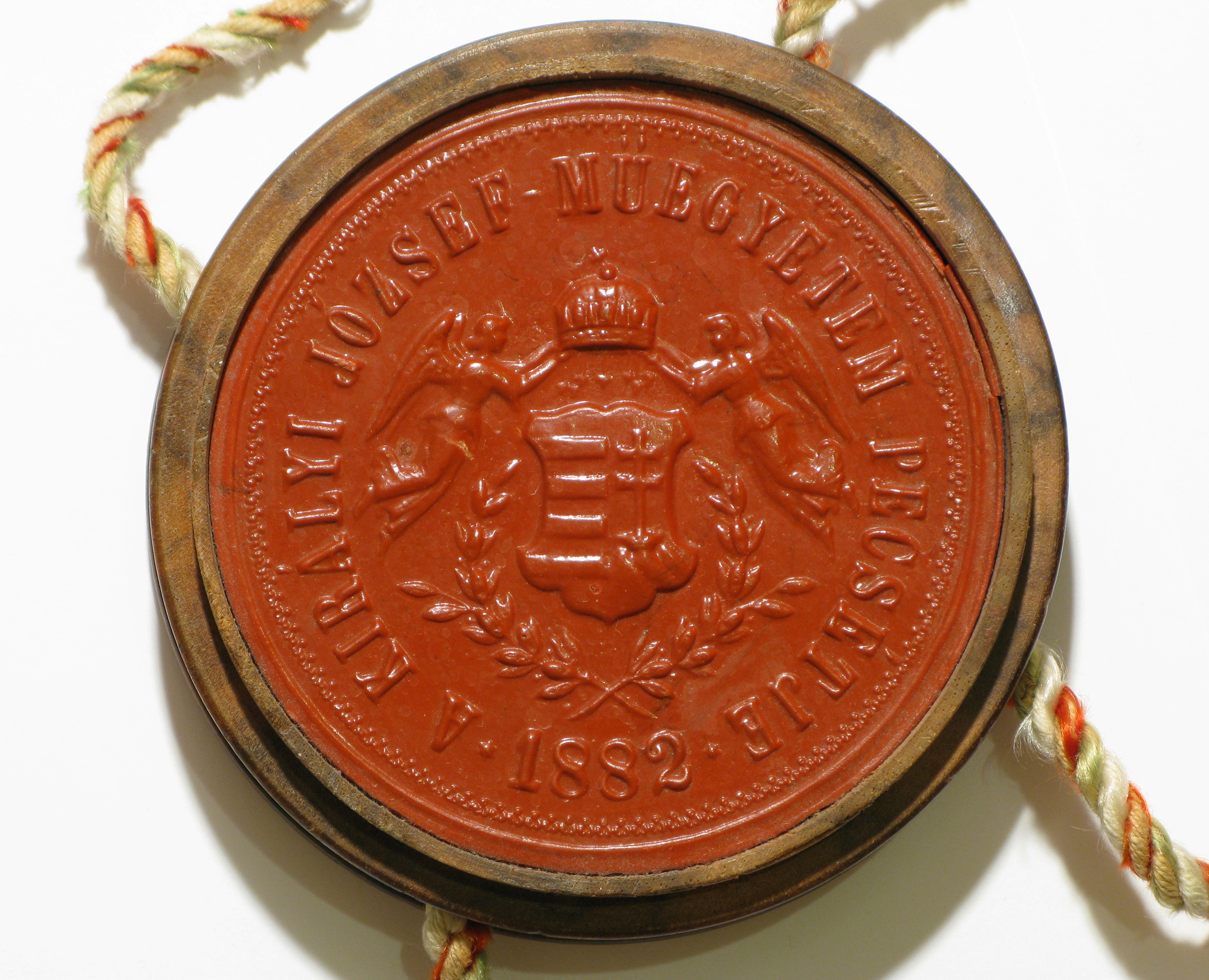 Seal of Royal Joseph Technical University from the year 1882